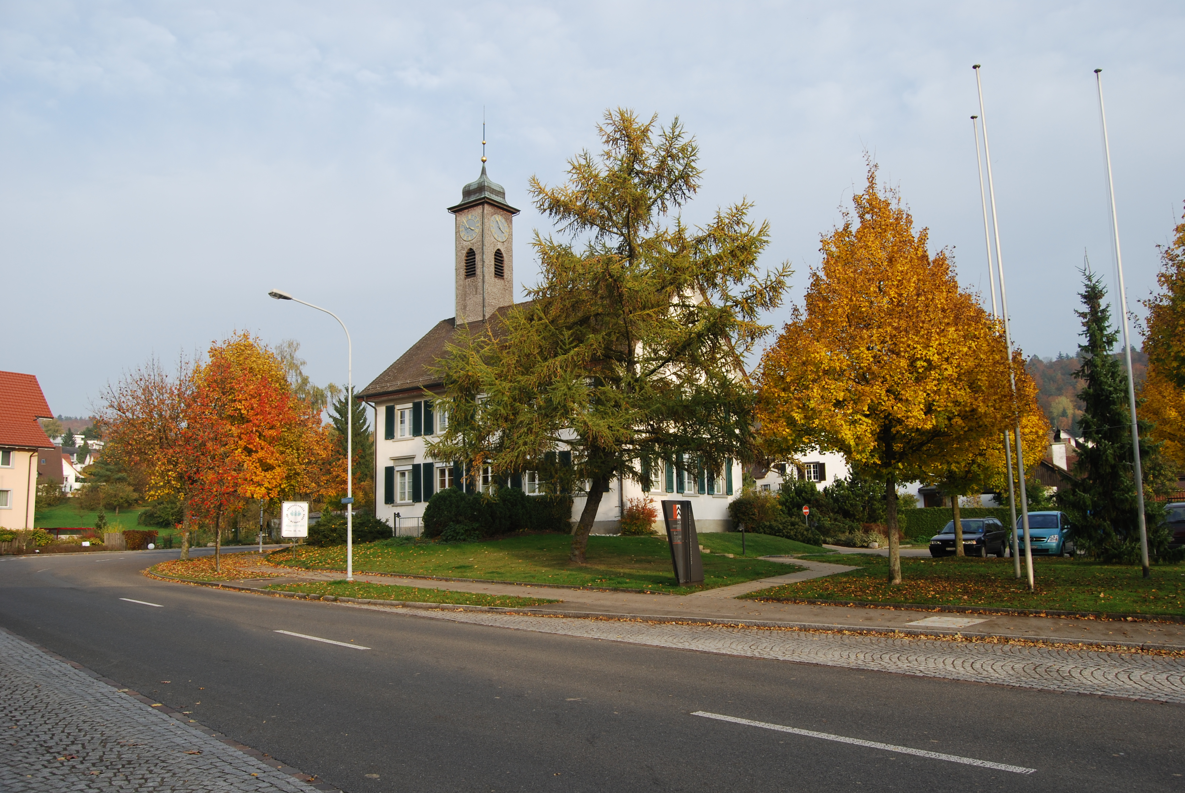 Winkel - municipal hall, canton of Zürich, SwitzerlandEsperanto: Winkel - komunuma domo, Kantono Zuriko, Svislando